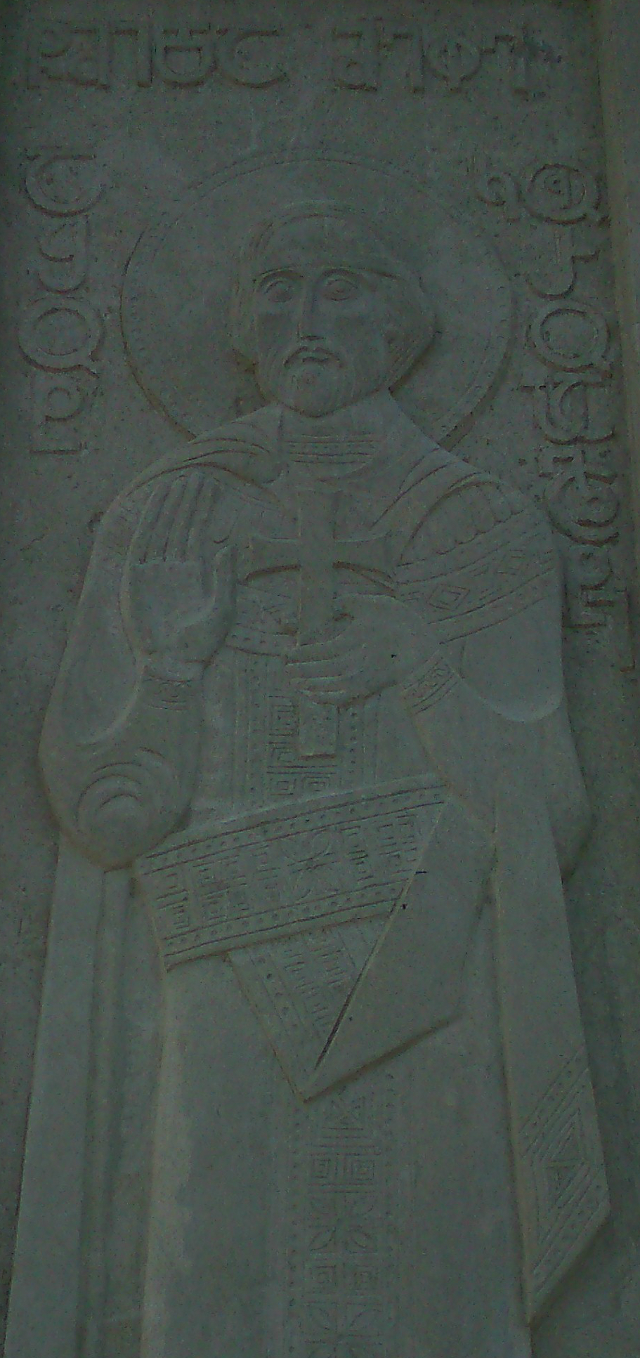 Relief of King Ashot I the Great